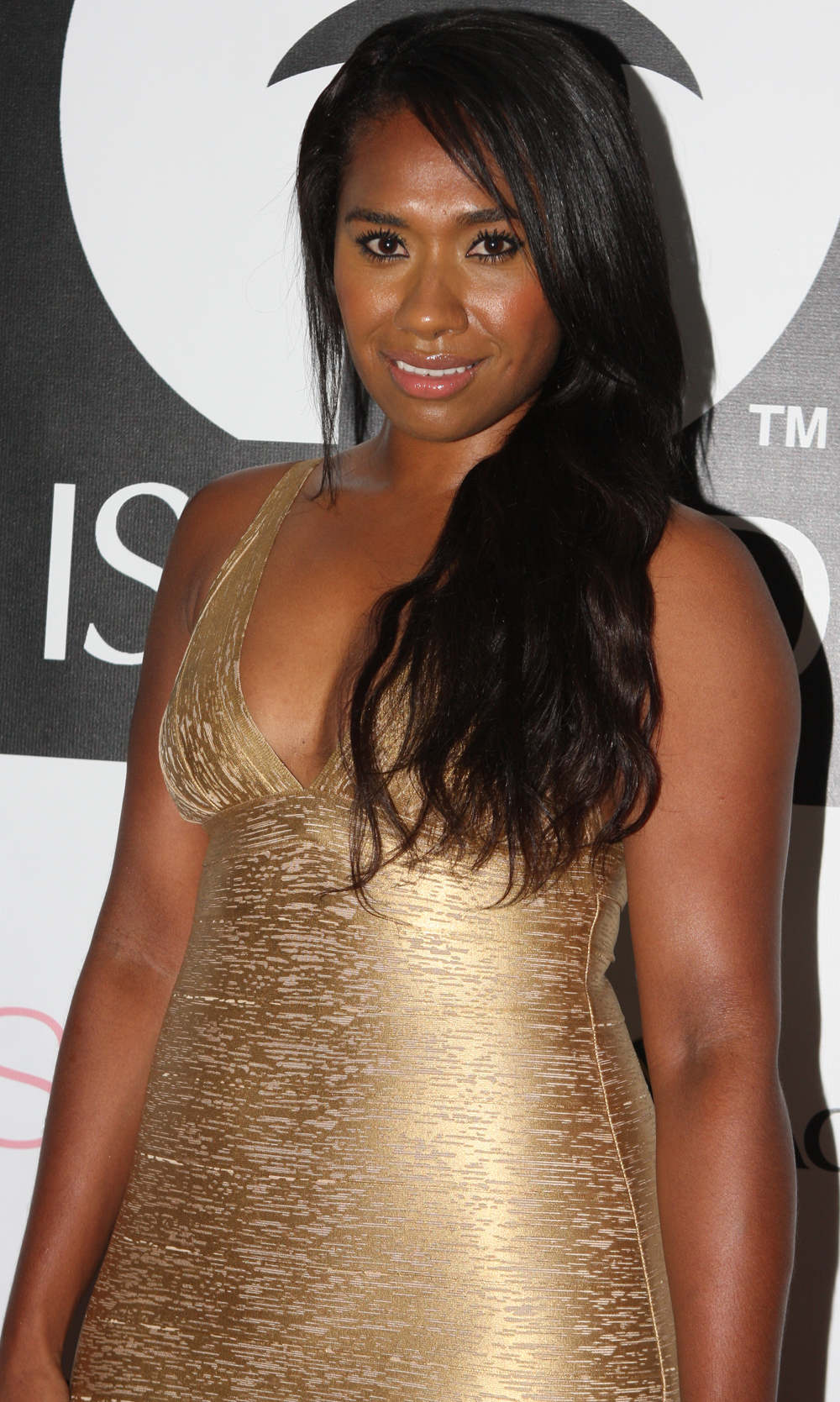 Paulini. Universal Records and Island Records performing artists at Blue Beat club, Double Bay, Sydney